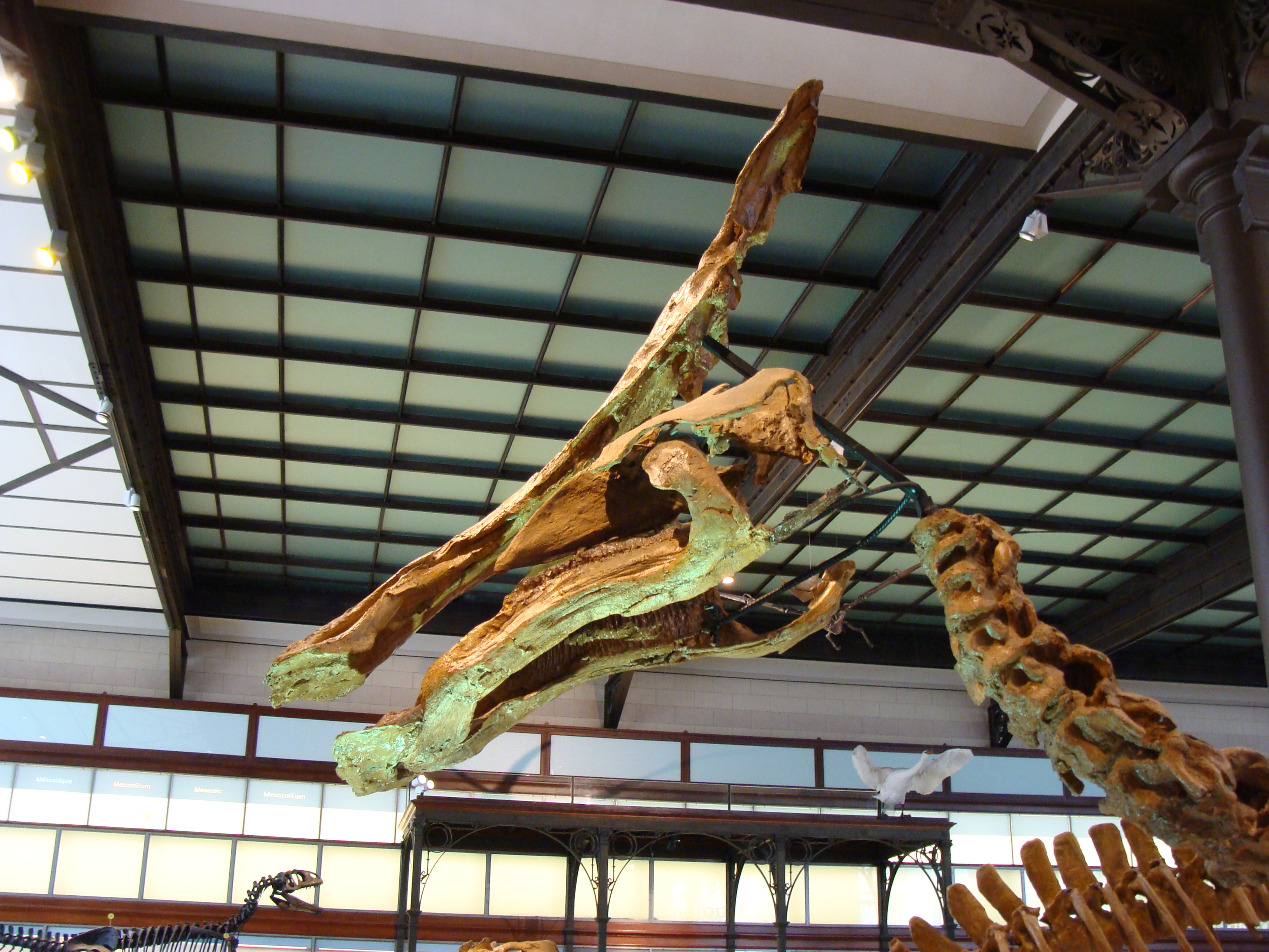 Olorotitan skull inthe Royal Belgian Institute of Natural Sciences.